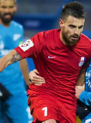 Damien Le Tallec